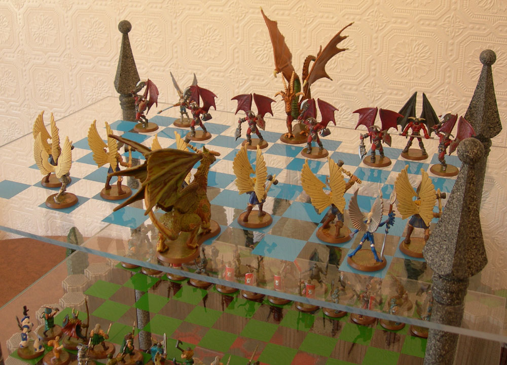 Dragonchess upper board - user set & pic